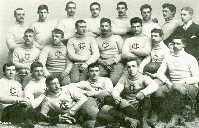 1889 Cornell Varsity Football Team: (Standing L to R) A. W. Shepard, E. H. Brown, H. A. Benedict, H. M. Bush, G. H. Thayer, J. E. Fleming, H. N. Wood, J. A. Williams "Manager" (Sitting L to R) T. C. Dunn, L. C. Ehle, A. J. Colnon, L. H. Galbraith, A. J. Baldwin, D. Upton, B. M. Harris (On floor L to R) J. V. Bohn, E. A. Carolan, J. G. McDowell, E. Yawger, W. D. Osgood